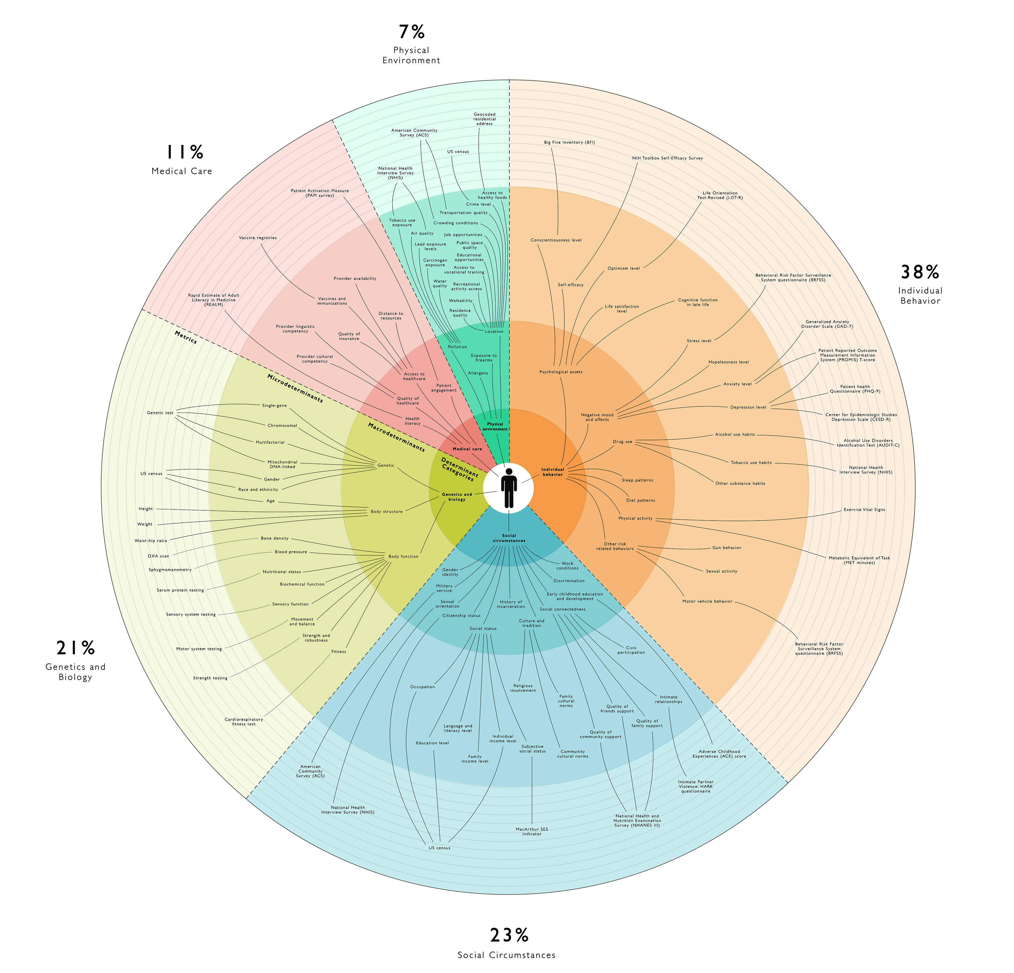 This is a detailed picture of the social determinants of health from the micro to macro determinants, validated by public health analysts, healthcare academics, and healthIT professionals. This is an open source visualization, licensed under Creative Commons Attribution v3. The source is from and the references, methodology, and vizualization can be accessed on It will be used in Social determinants of health